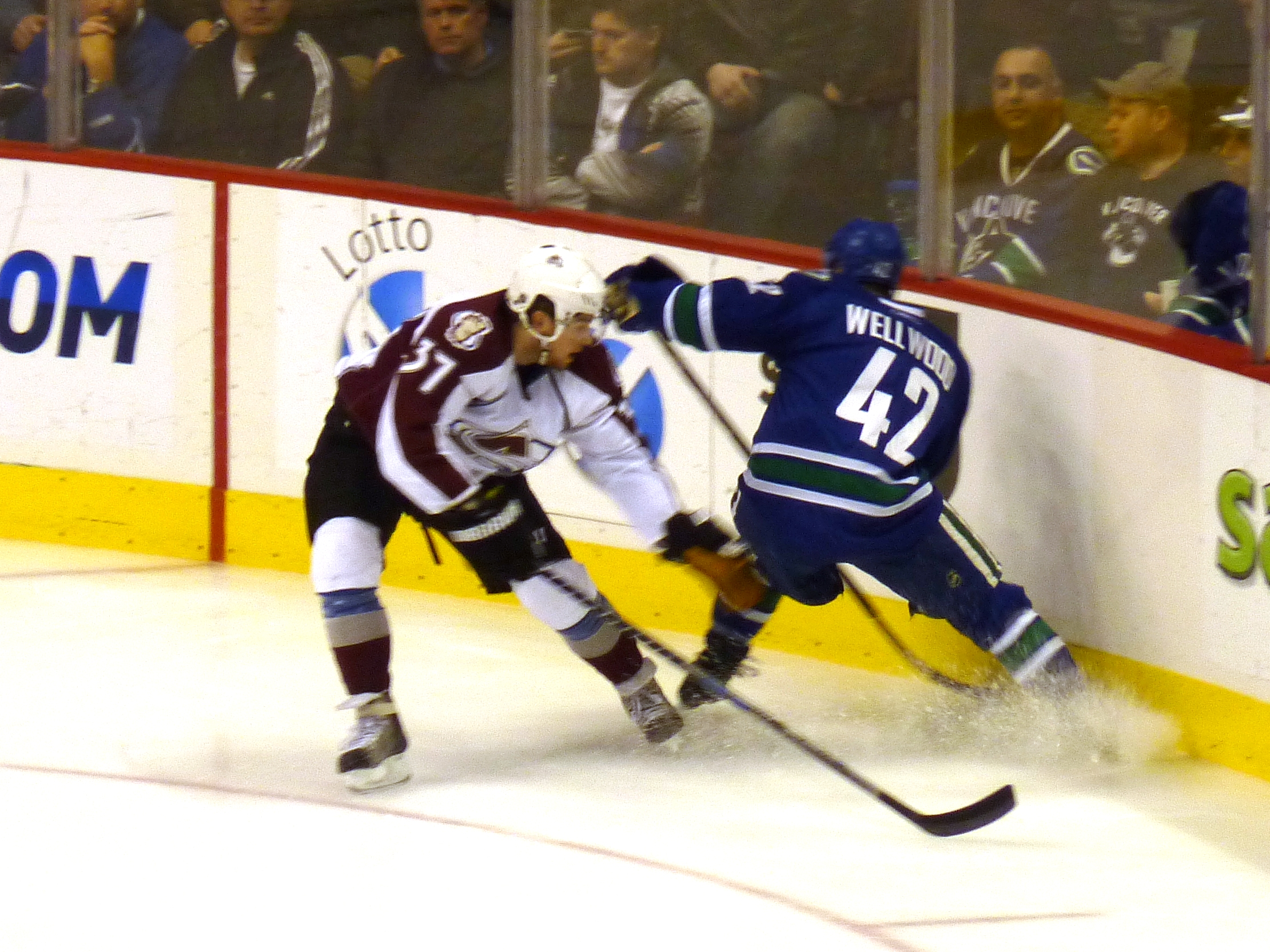 Ryan O'Reilly from the Colorado Avalanche battles along the boards with Kyle Wellwood from the Vancouver Canucks.